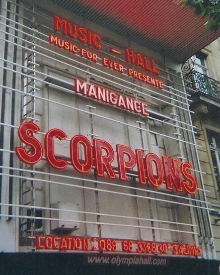 Front of Olympia announcing Manigance / Scorpions concert